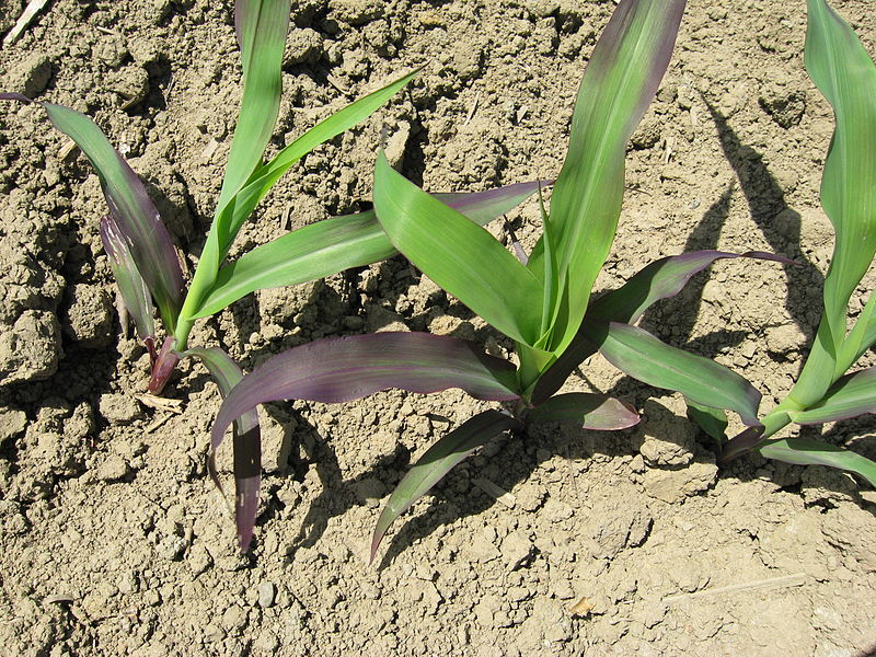 Phosphorus deficiency on maize